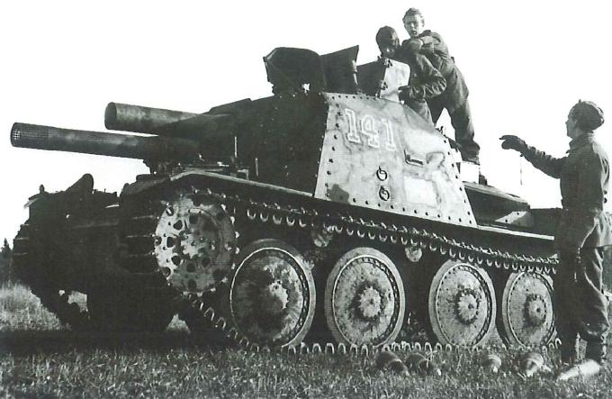 Swedish Sav m/43 assault gun